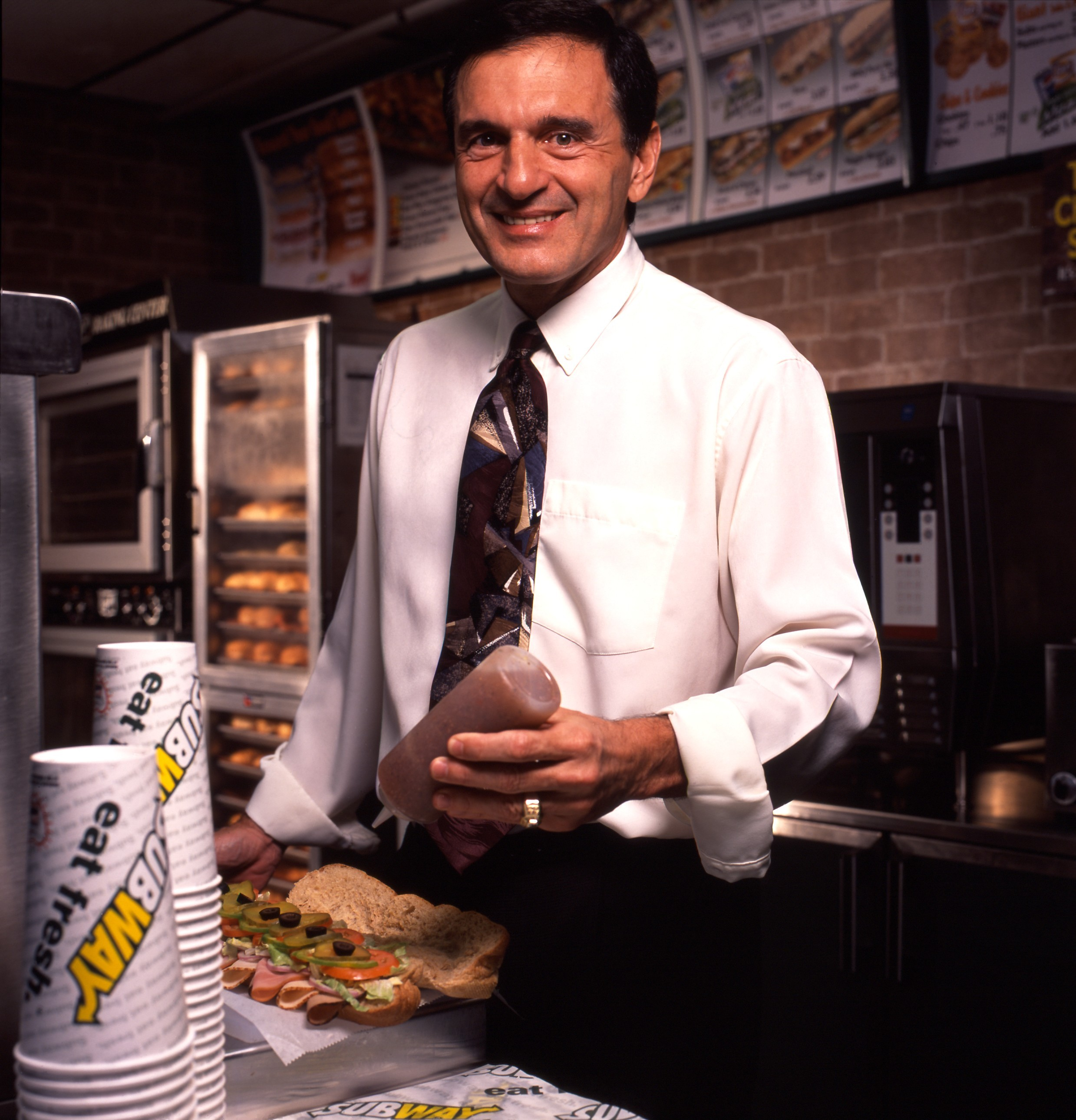 The founder of Subway, Fred De Luca.